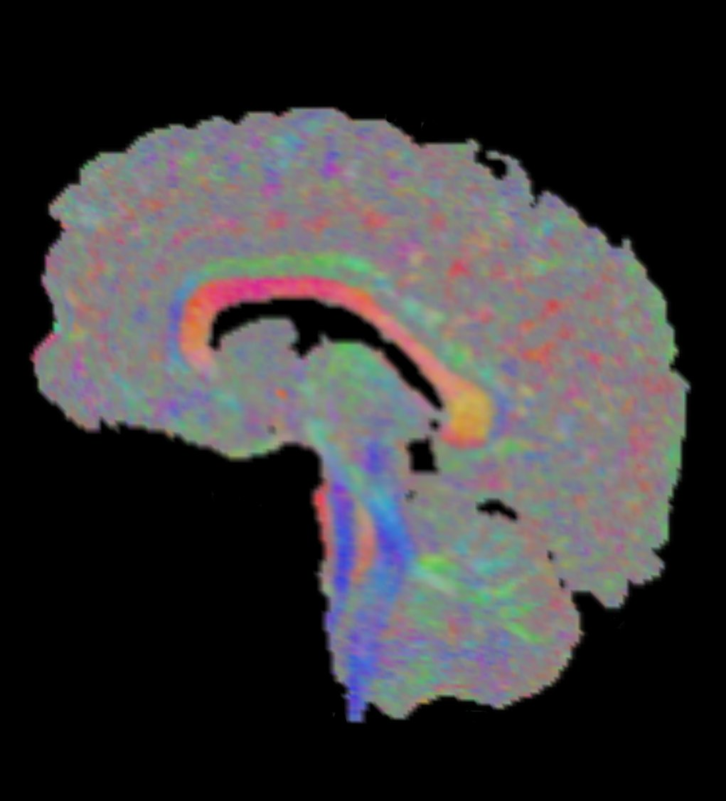 Visualization of DTI data, depicting a sagittal slice of a human brain near the mid-sagittal plane. The visualization uses the standard XYZ-RGB principal eigenvector color mapping. Especially prominent are the corpus callosum (large red structure in the center) and the fiber tracts that descend toward the spine (blue). Black areas are air or cavities that are filled with corticospinal fluid.